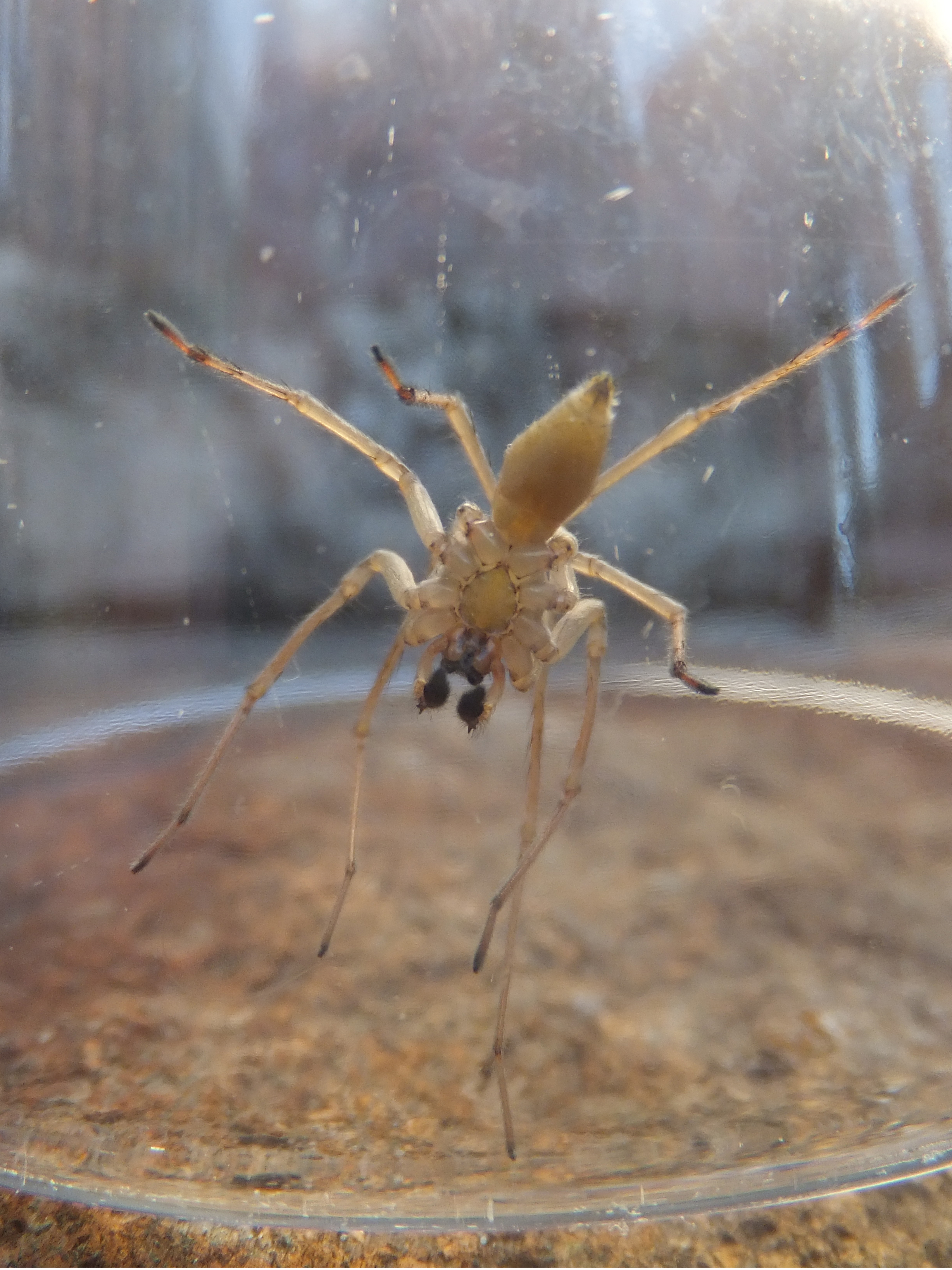 Male Cheiracanthium mildei photographed in Piazzo (Segonzano, Italy)